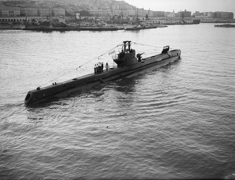 British Submarine Shakespeare on the Warpath. 14 and 16 April 1943, Algiers. HM SUBMARINE SHAKESPEARE setting out on patrol.